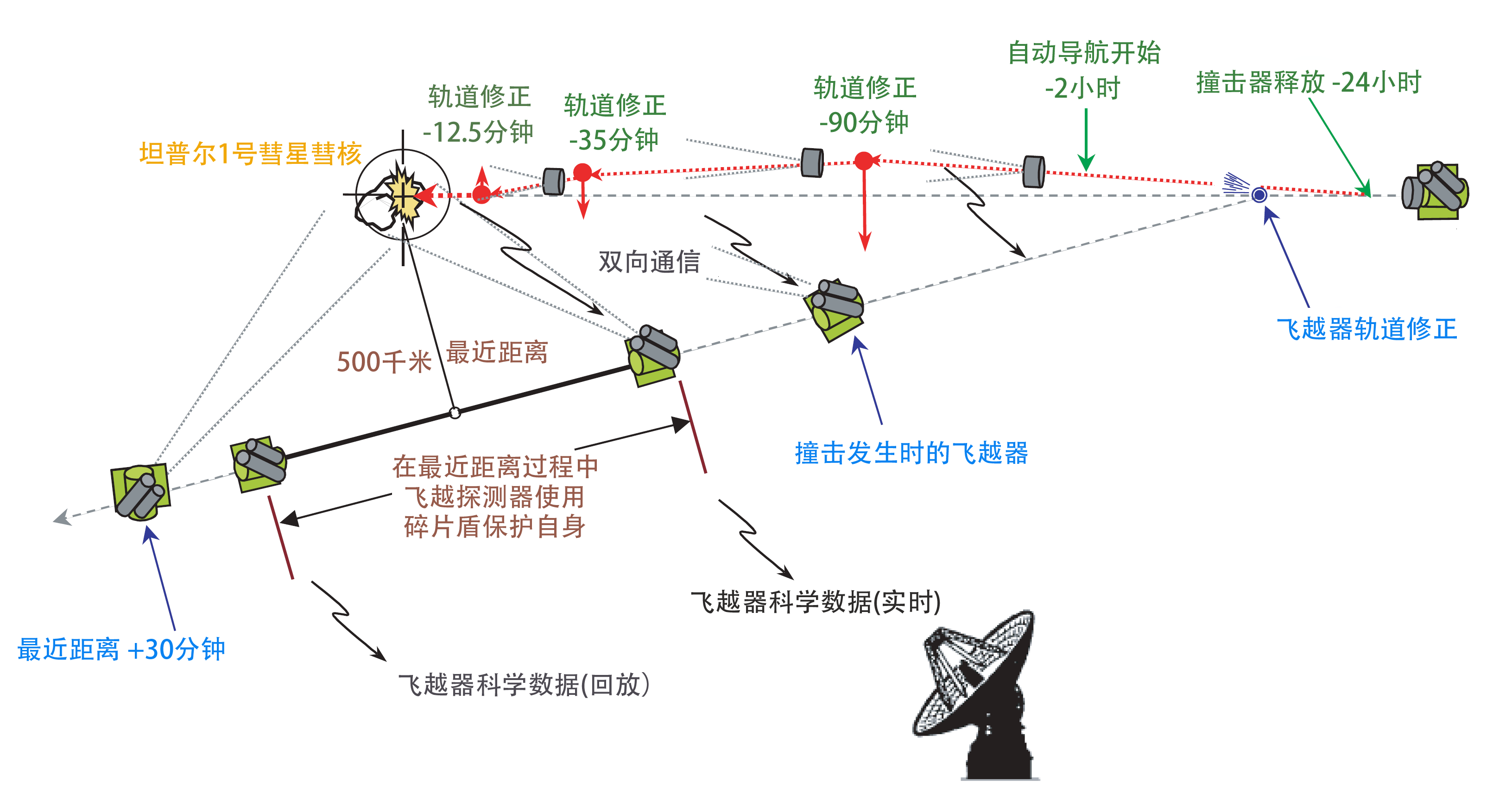 Deep Impact encounter sequence